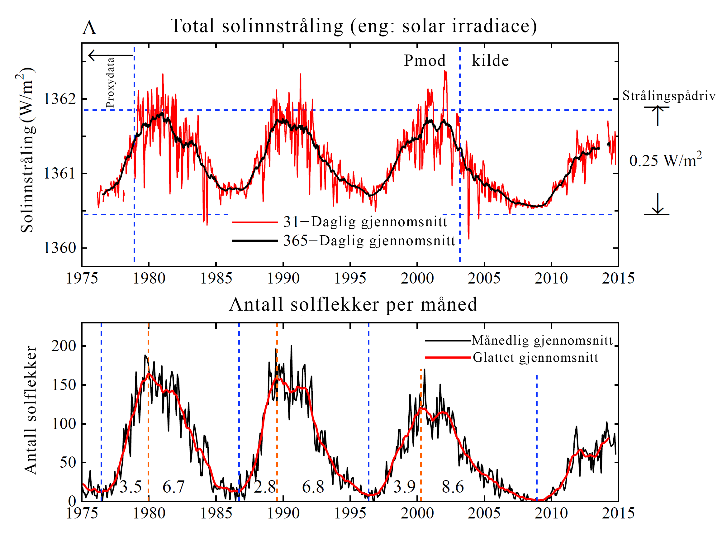 Version in Norwegian. These two graphs show changes in total solar irradiance (TSI, labelled "A") and monthly sunspot numbers ("B") between approximately 1975 to 2013. TSI is measured in watts per square metre (W.m-2), with 31-day and 365-day running means plotted. The 31-day mean shows more variability than the 365-day mean. Both curves show a pattern of peaks and troughs (see: solar cycle). The range of changes in solar forcing (365-day mean) over the time period is 0.25 W.m2. Graph B plots a monthly mean and smoothed mean, with the monthly mean showing more variability than the smoothed mean. The pattern of peaks and troughs in total solar irradiance is replicated in this graph of monthly sunspot numbers. A summary of the data is given in a later section.